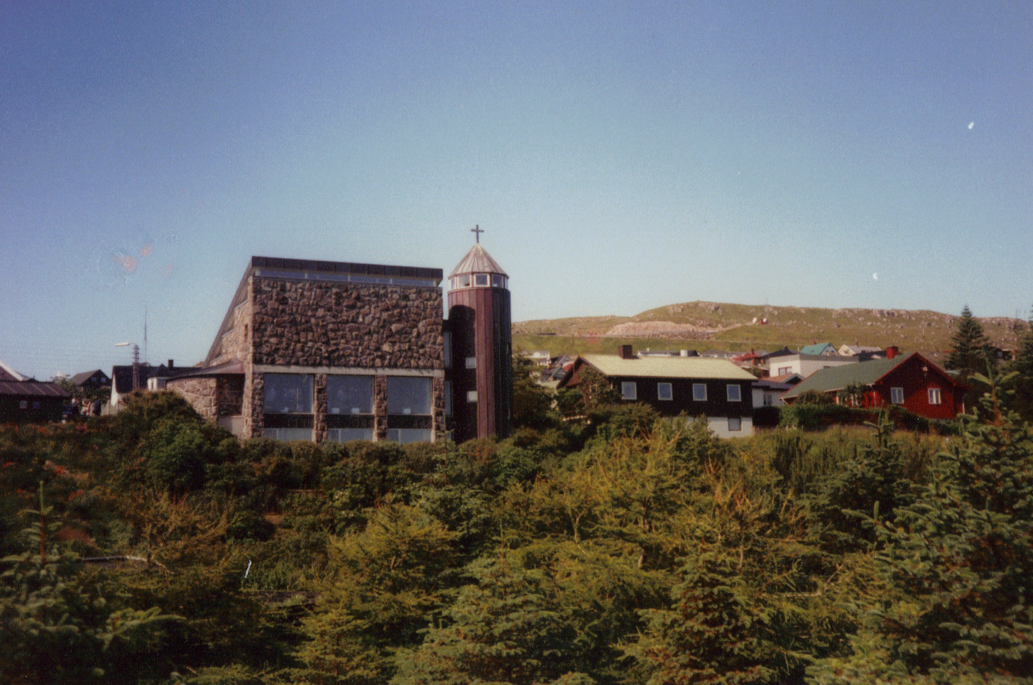 View from the park to the catholic church